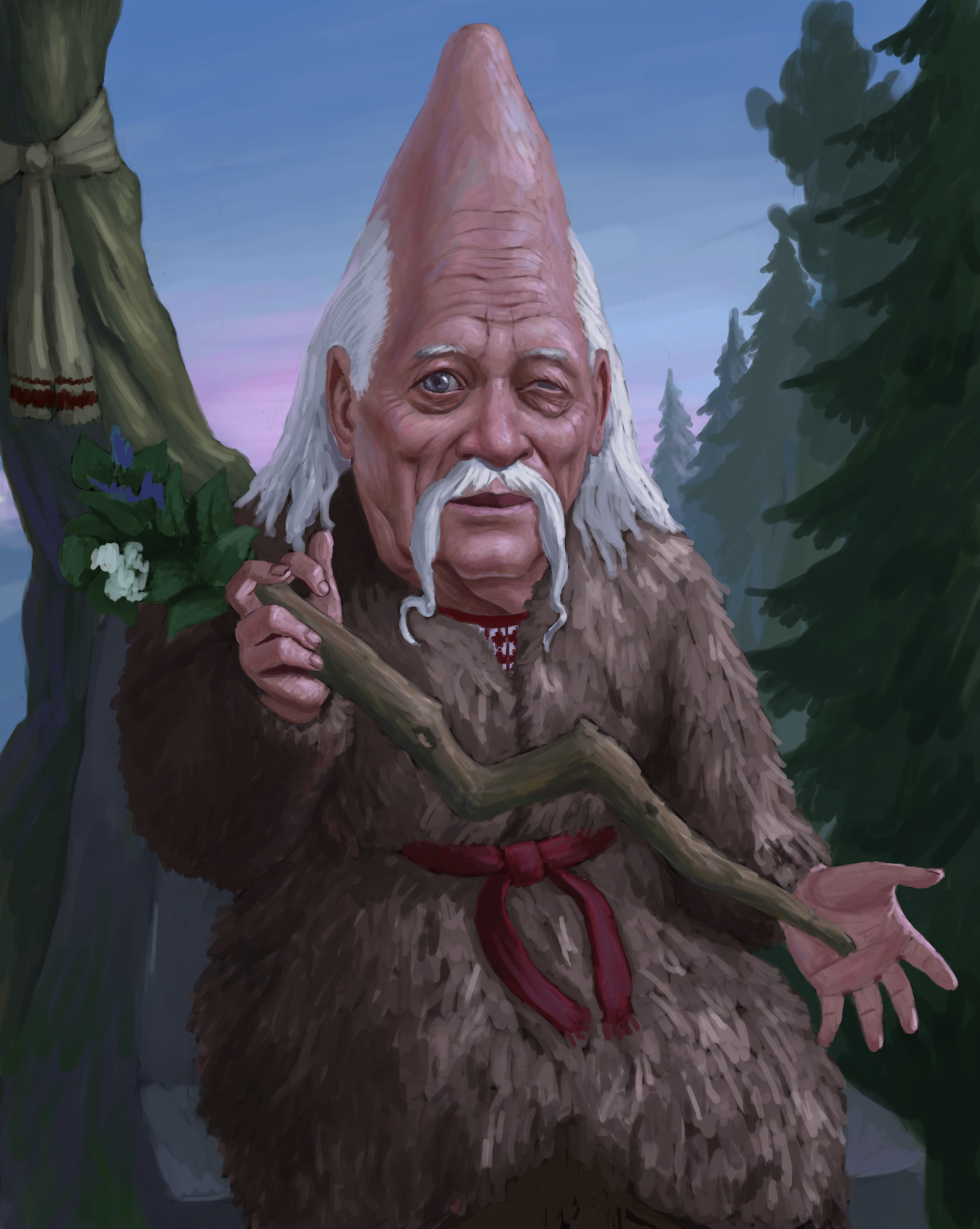 Lizsun , the spirit from the Belarusian mythology